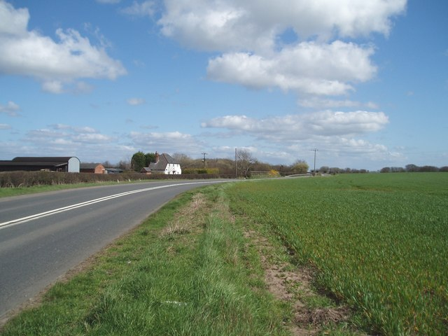 A533 west of Dones Green, Field Farm on left